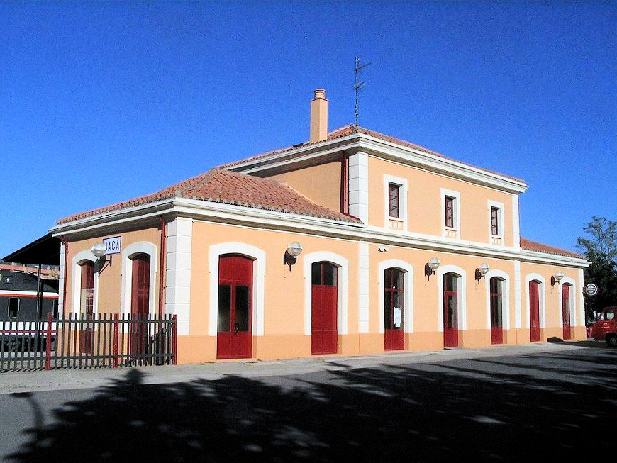 Jaca (Spain) train station